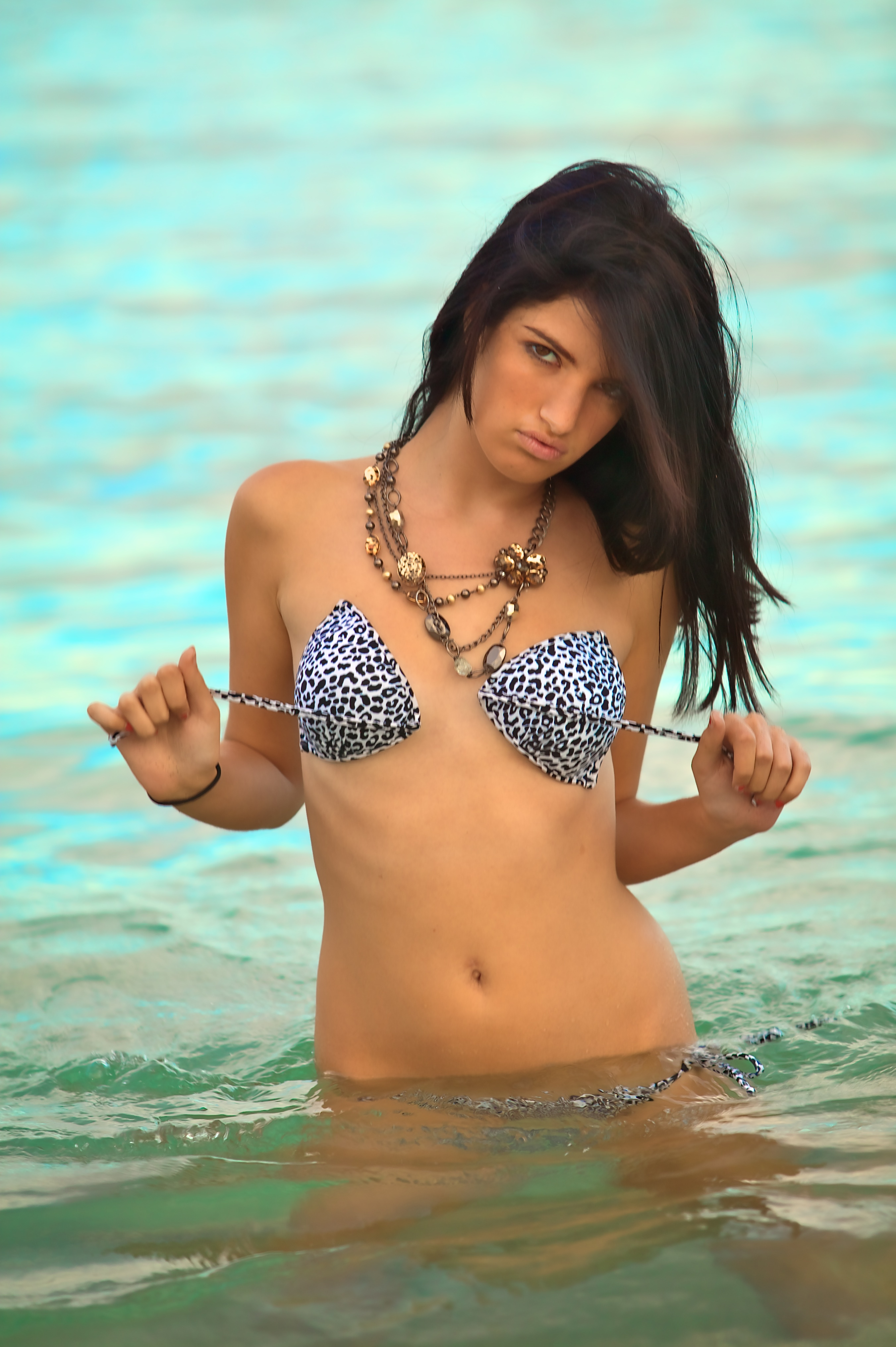 Microkini?